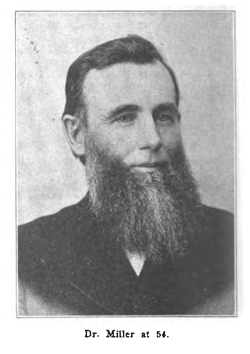 “The Nestor of American Beekeeping.” American Bee Journal, vol. 60, no. 10, Oct. 1920, p. 336. Retrieved May 3, 2018